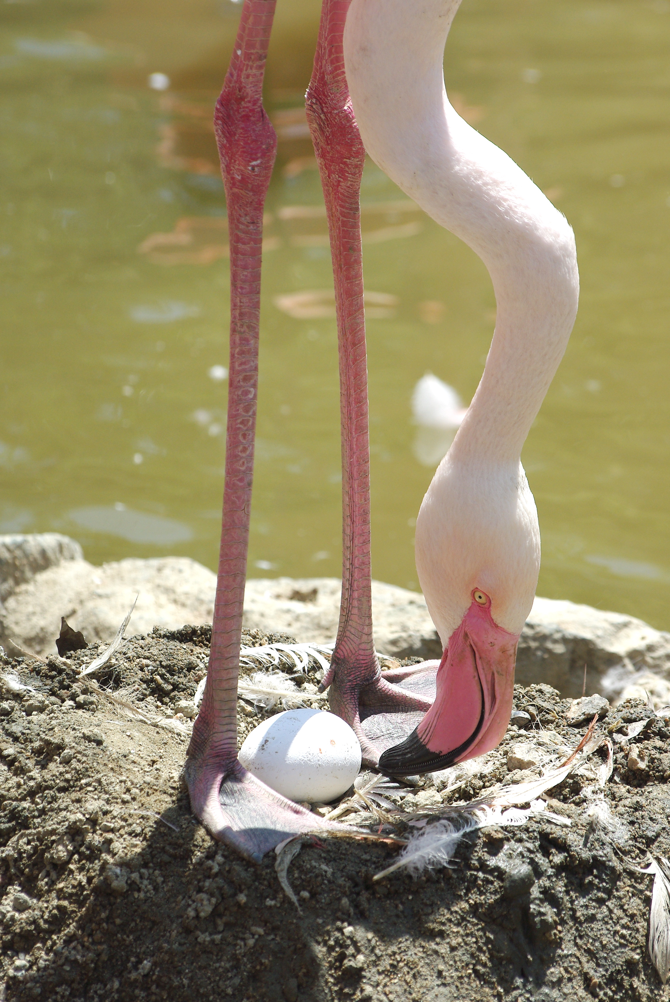 A Greater Flamingo with an egg at Kobe Oji Zoo ,Japan.